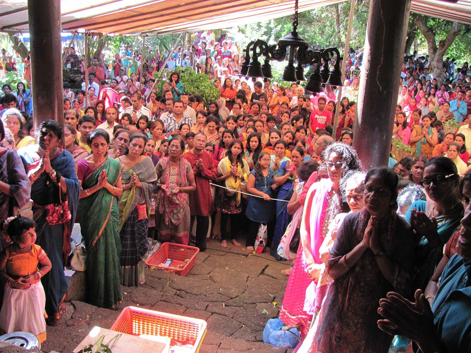 Ganesha homa at the Spiritual Park in Mauritius